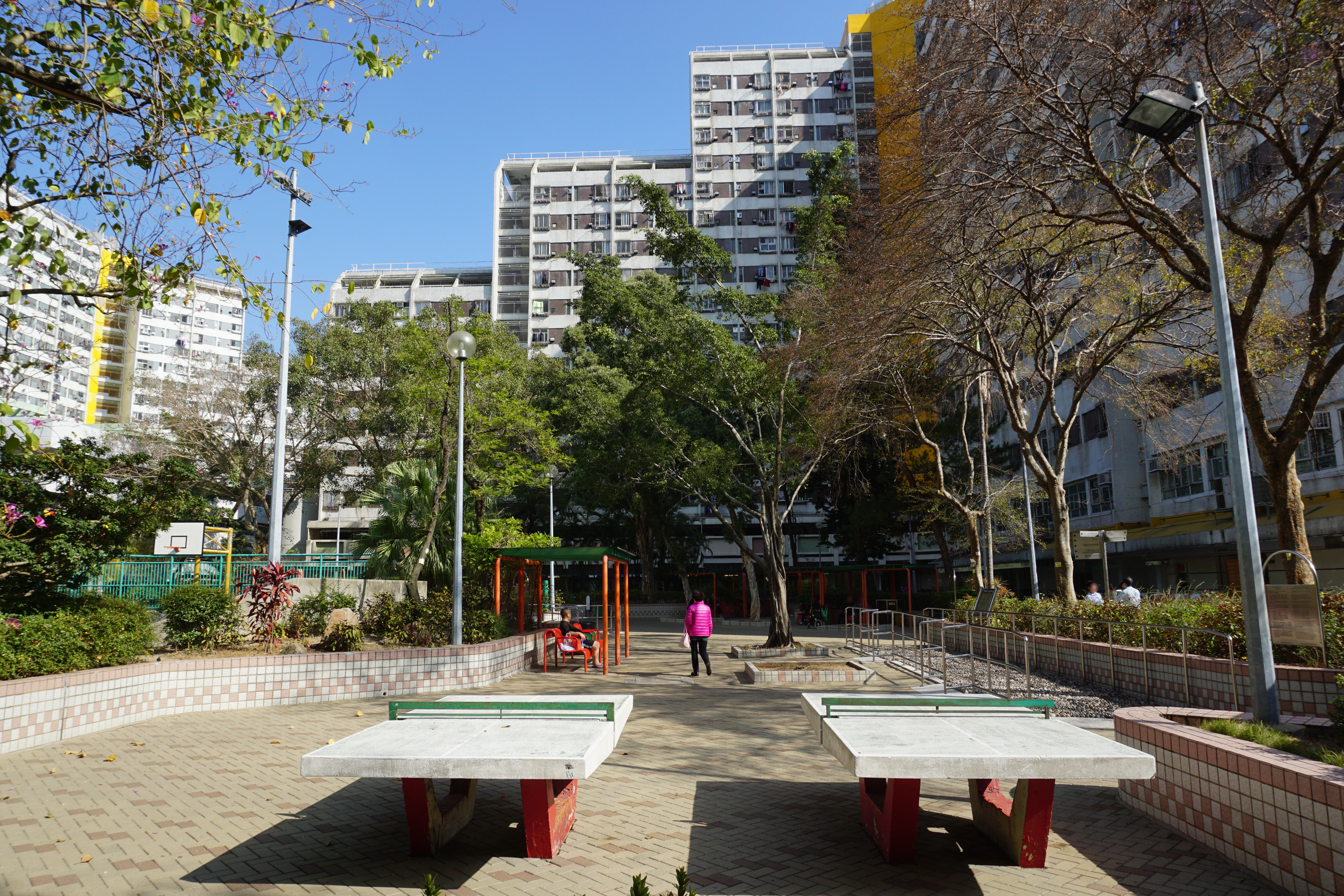 Butterfly Estate in Tuen Mun, Hong Kong.